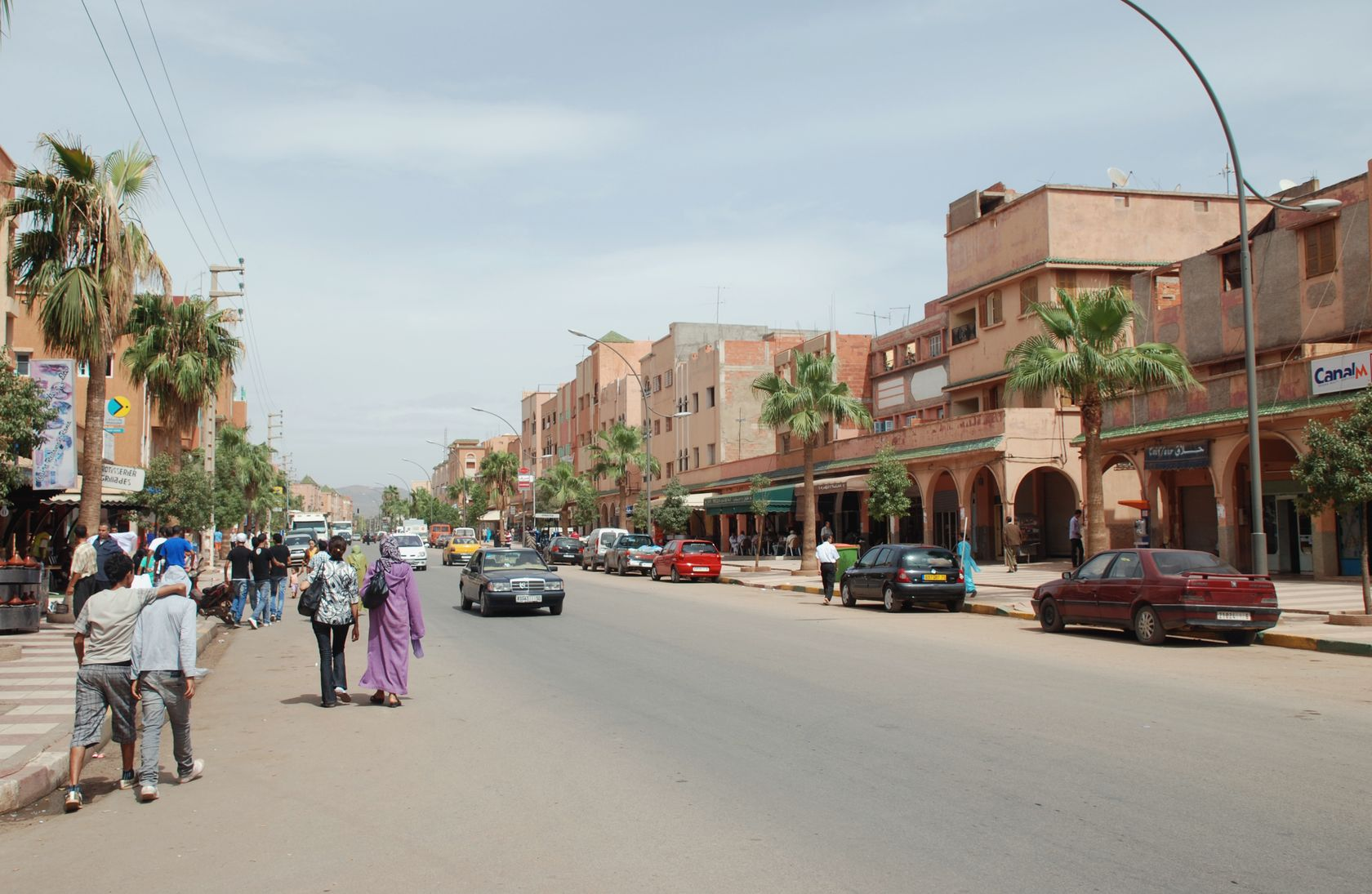 Khénifra, Morocco, main road